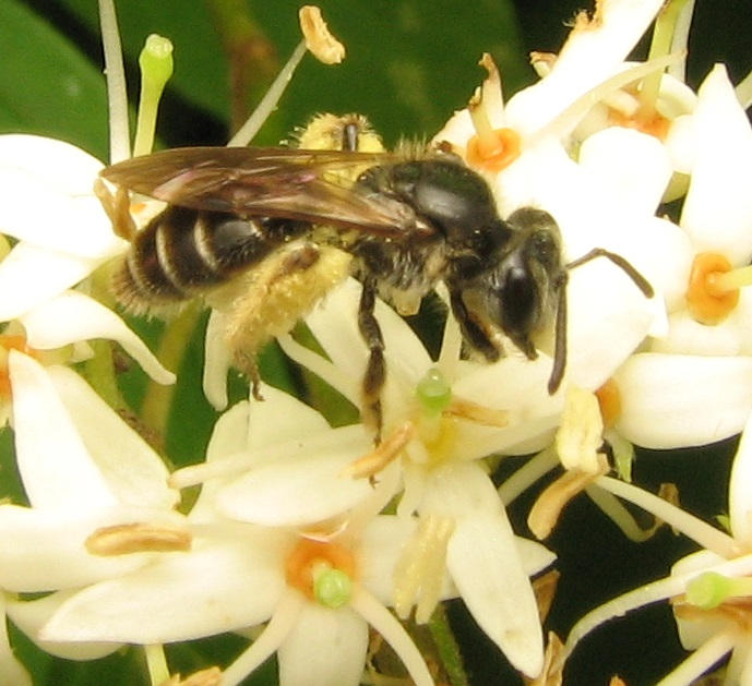 Dogwood andrena, Andrena Subgenus Gonandrena, on dogwood. Briar Bush Nature Center, Montgomery County, Pennsylvania, USA.